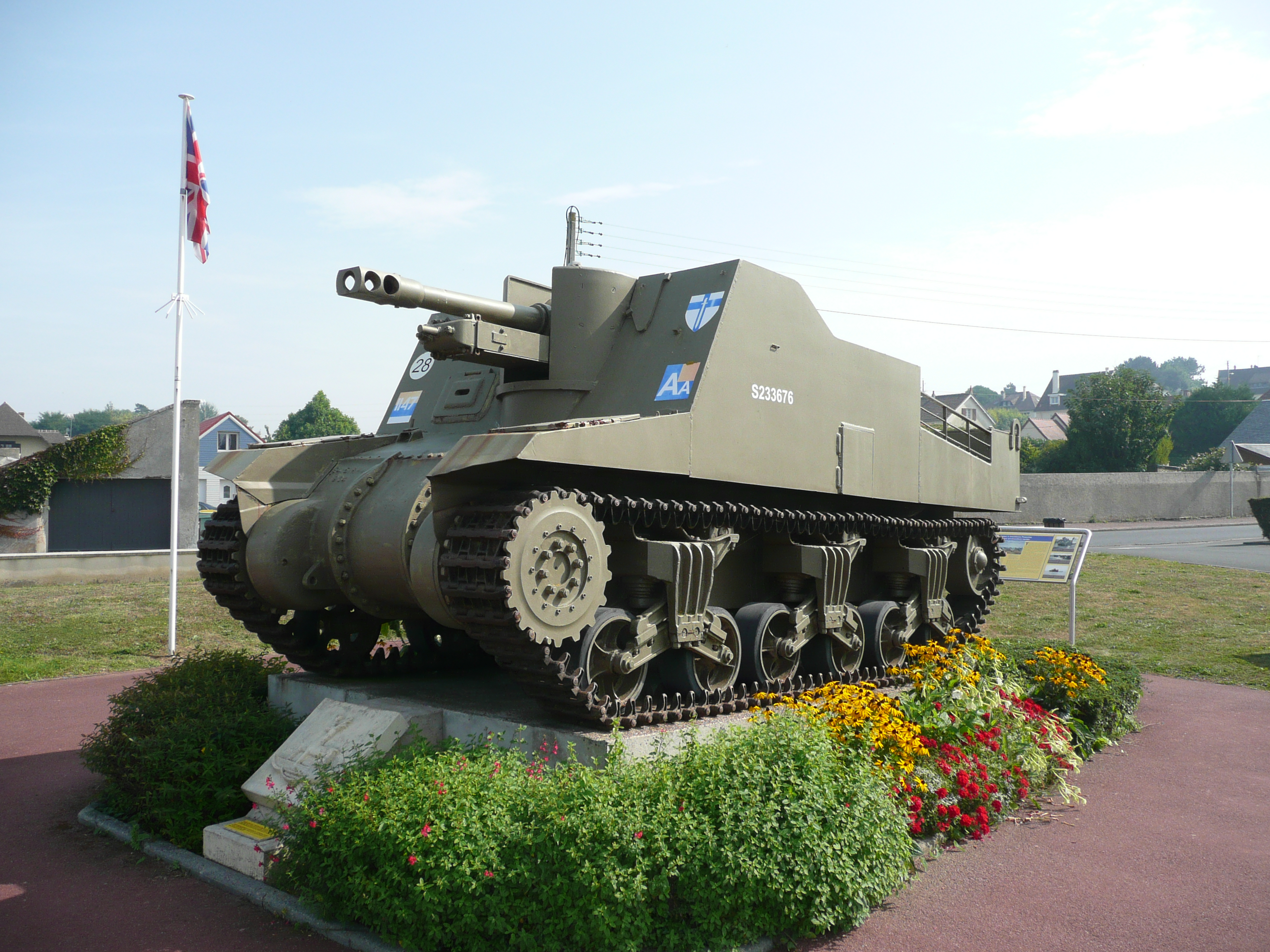 Sexton self-propelled 25 pounder gun on display at Ver-sur-Mer, Normandy, France